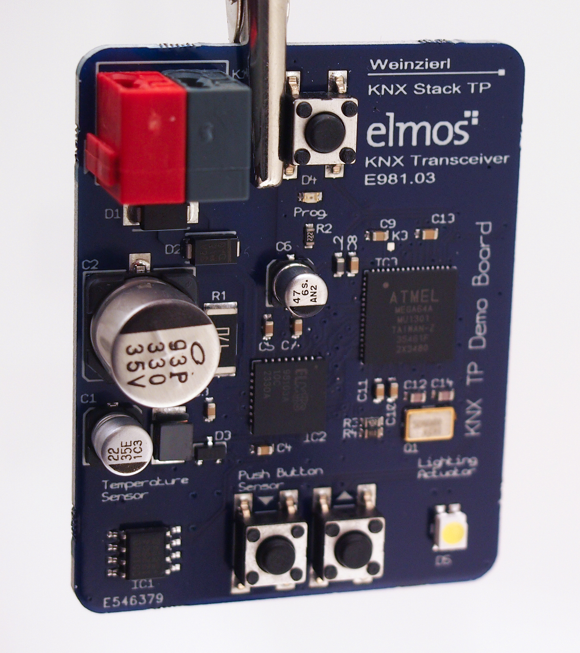 Embedded World 2014: Elmos E 981.03 KNX Development Board